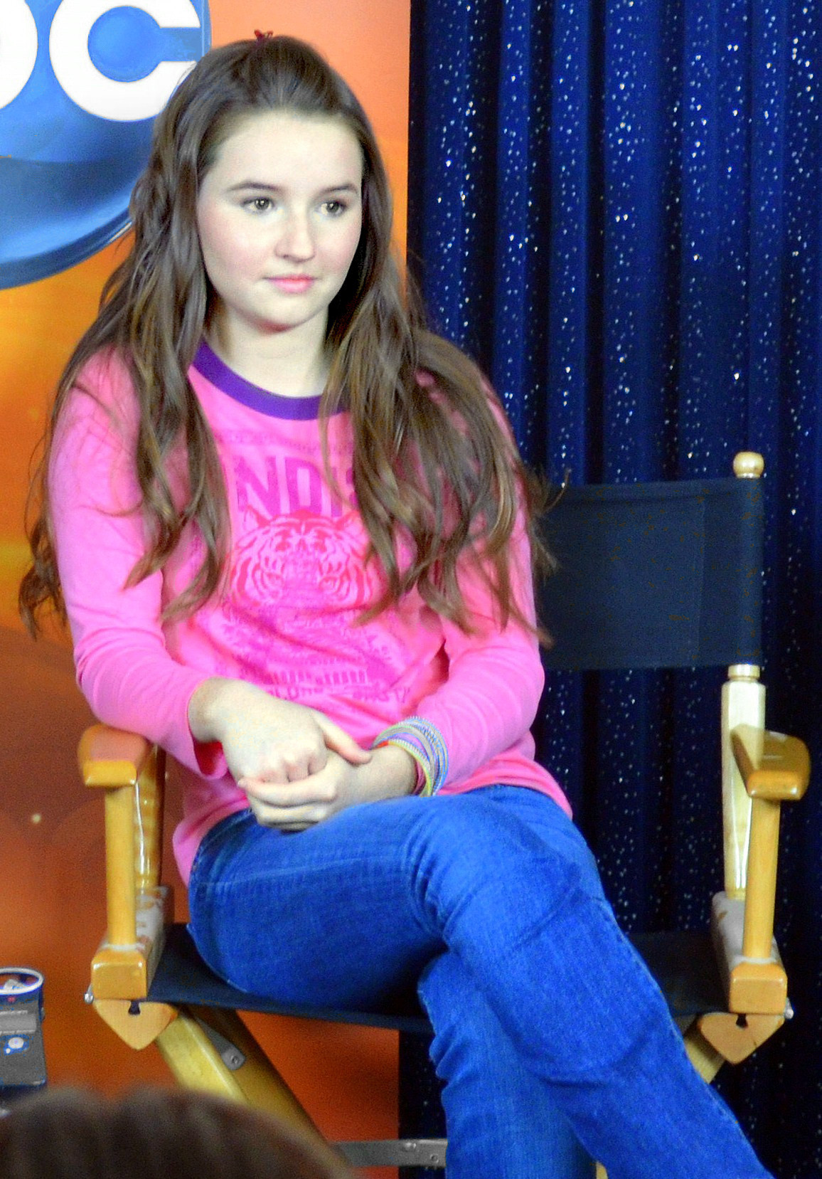 Actress Kaitlyn Dever on the set of ABC's Last Man Standing in 2012.